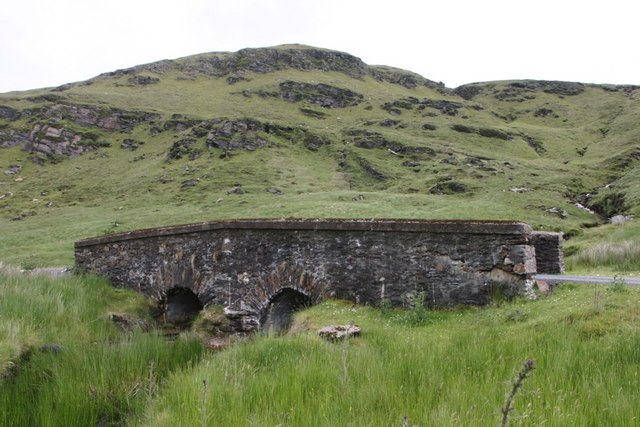 Meennassarudda Bridge Road bridge on the R256 over the Sruhanmeennasarudda.